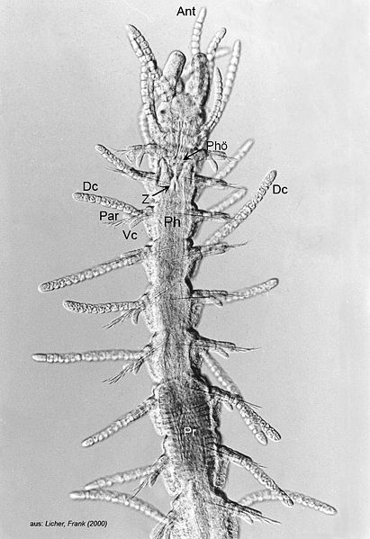 Light-microscopical photo of the syllid Typosyllis tyrrhena Licher & Kuper, 1998 (Polychaeta: Syllidae). (Ant=antenna, Dc=dorsal cirrus, Par=parapodium, Ph=pharynx, Phö=pharyngeal opening, Pr=proventricle, Vc=ventral cirrus, Z=pharyngeal tooth)